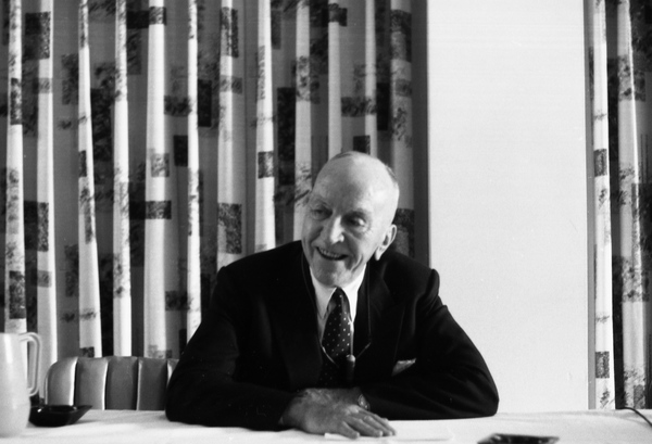 Captain Eddie Rickenbacker in Tallahassee.